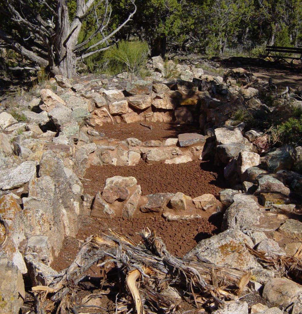 Anasazi food storage building ruins at Tusayan Pueblo — Grand Canyon area. Image taken in April 2004 by Daniel Mayer.